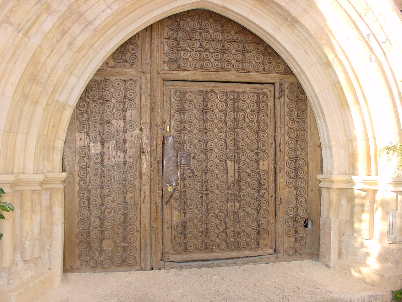 Romanesque grid at the entrance gate of San Andrés church in the municipality of Presencio, Burgos (Spain).